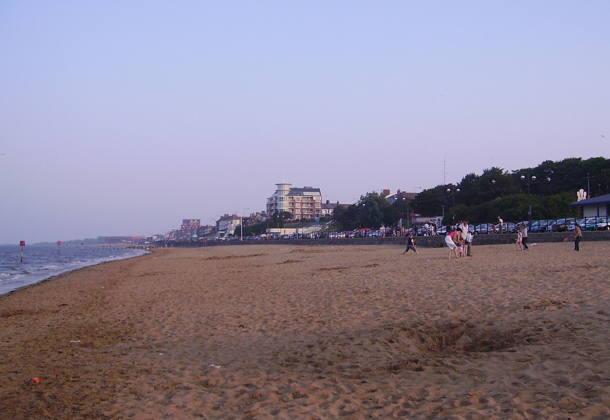 view of Cleethorpes, United Kingdom